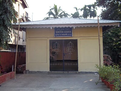 Akonir Namghar